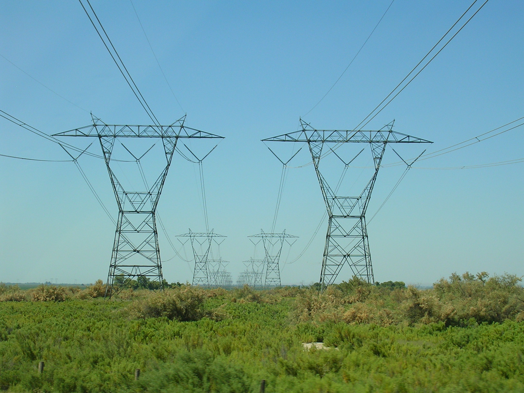 Southern California Edison's Path 26: two of three 500 kV power lines (SCE and PG&E) crossing Interstate 5. The third power line by Pacific Gas & Electric may be visible in the distant background if the picture is enlarged.